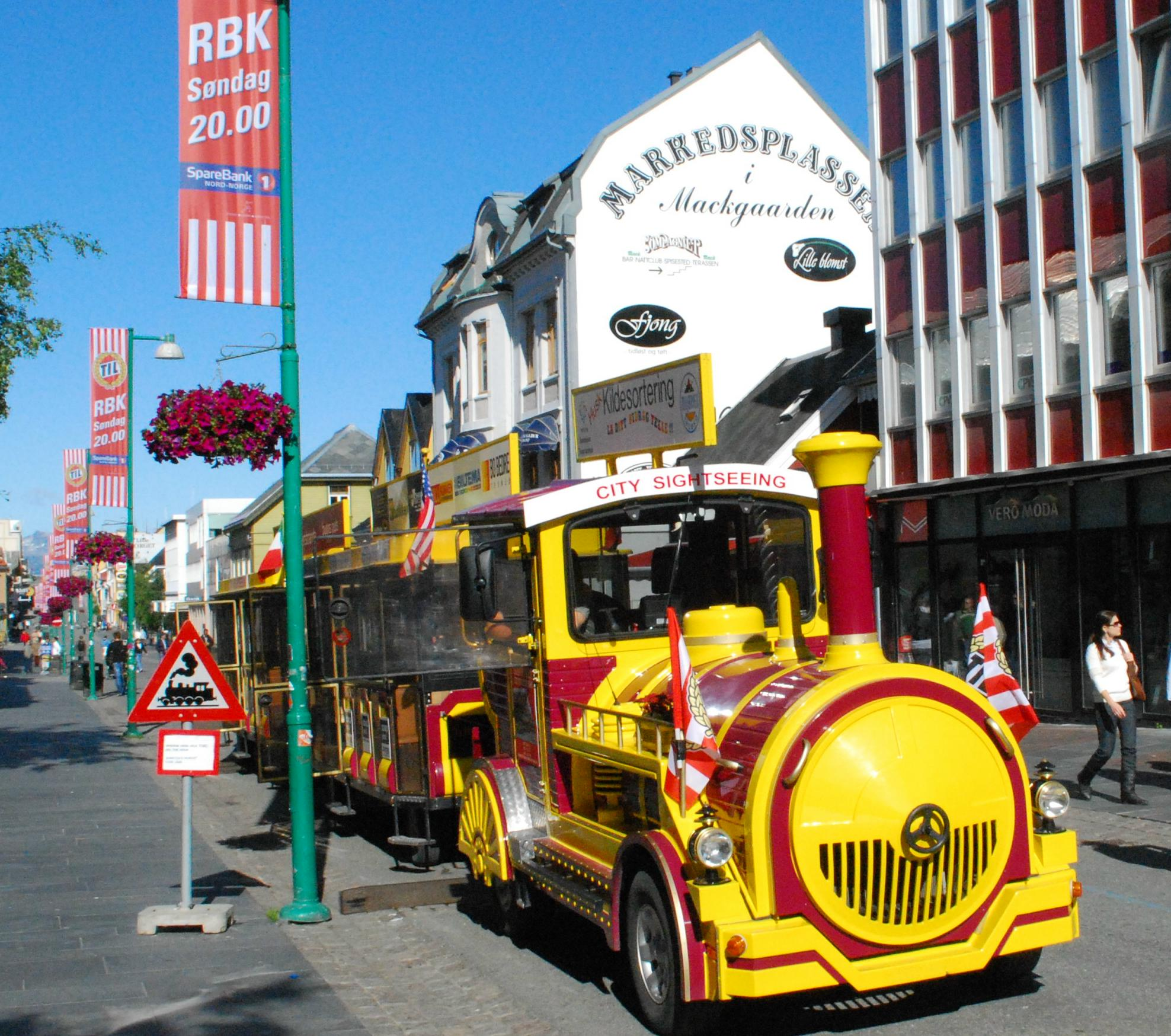 Tourist Train in Tromsø